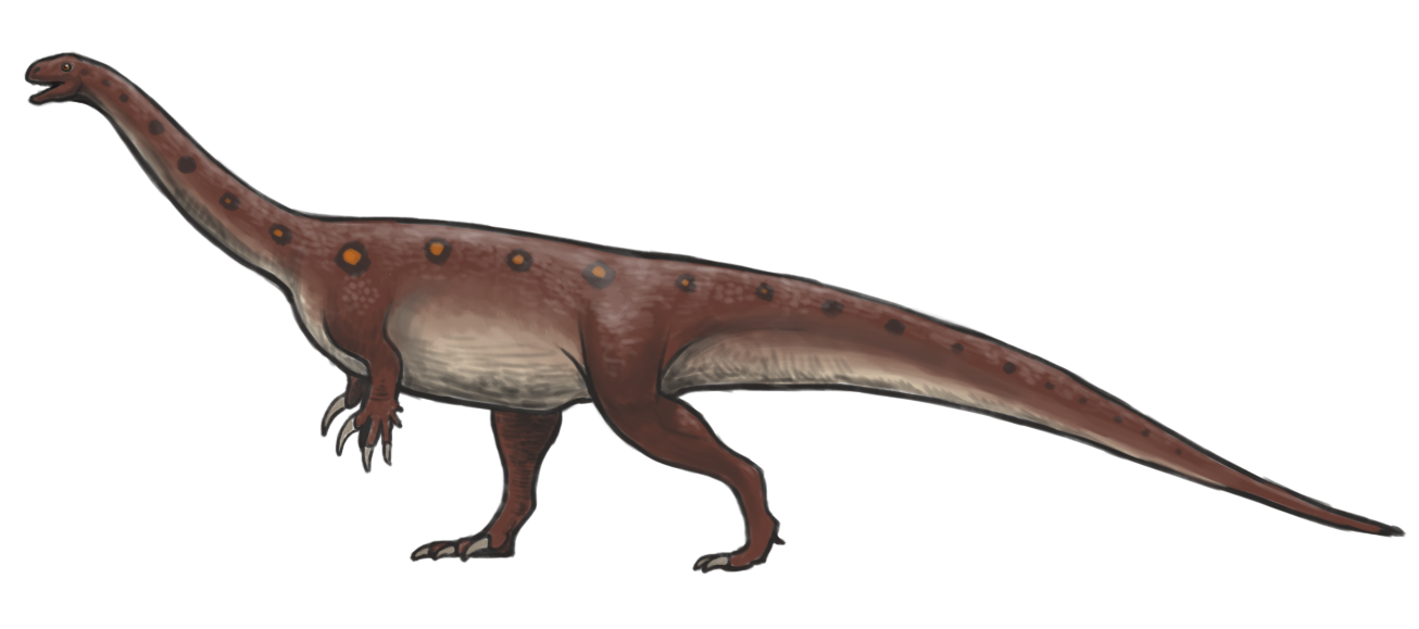 Simple reconstruction of Massospondylus carinatus, the early Jurassic "prosauropod" from Africa.